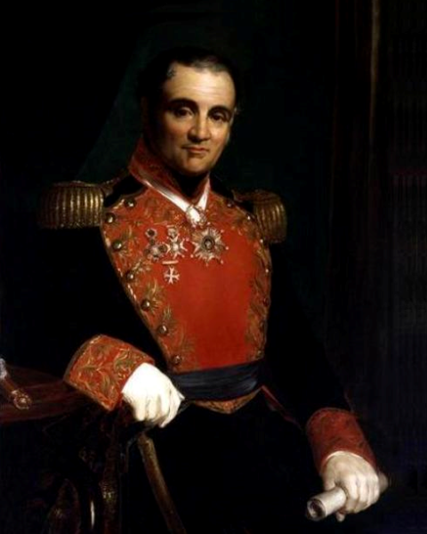 Anastasio Bustamante y Oseguera, President of Mexico